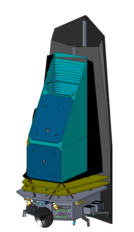 NEO-Surveillance-Mission-Diagram